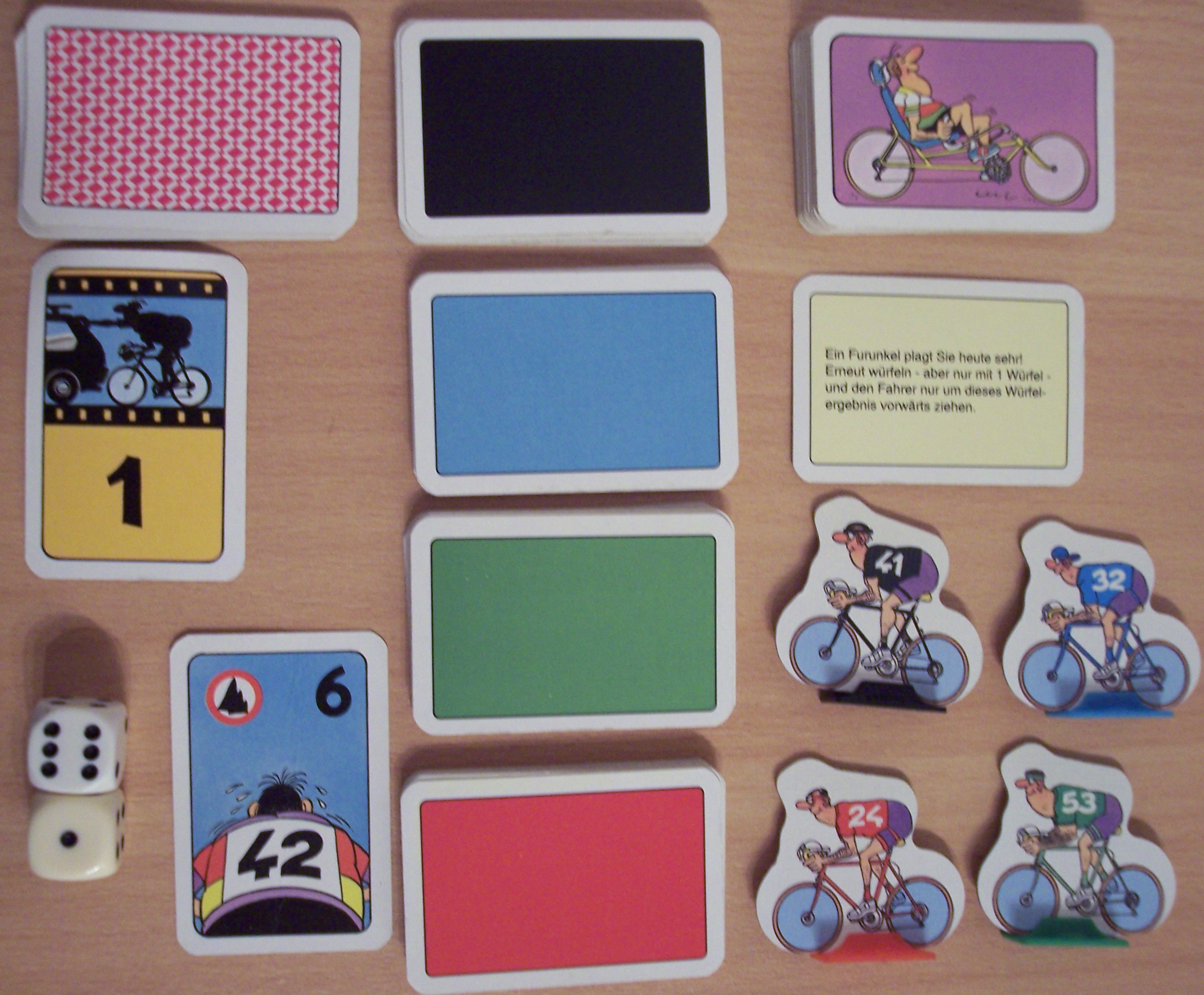 German Board game "Um Reifenbreite"